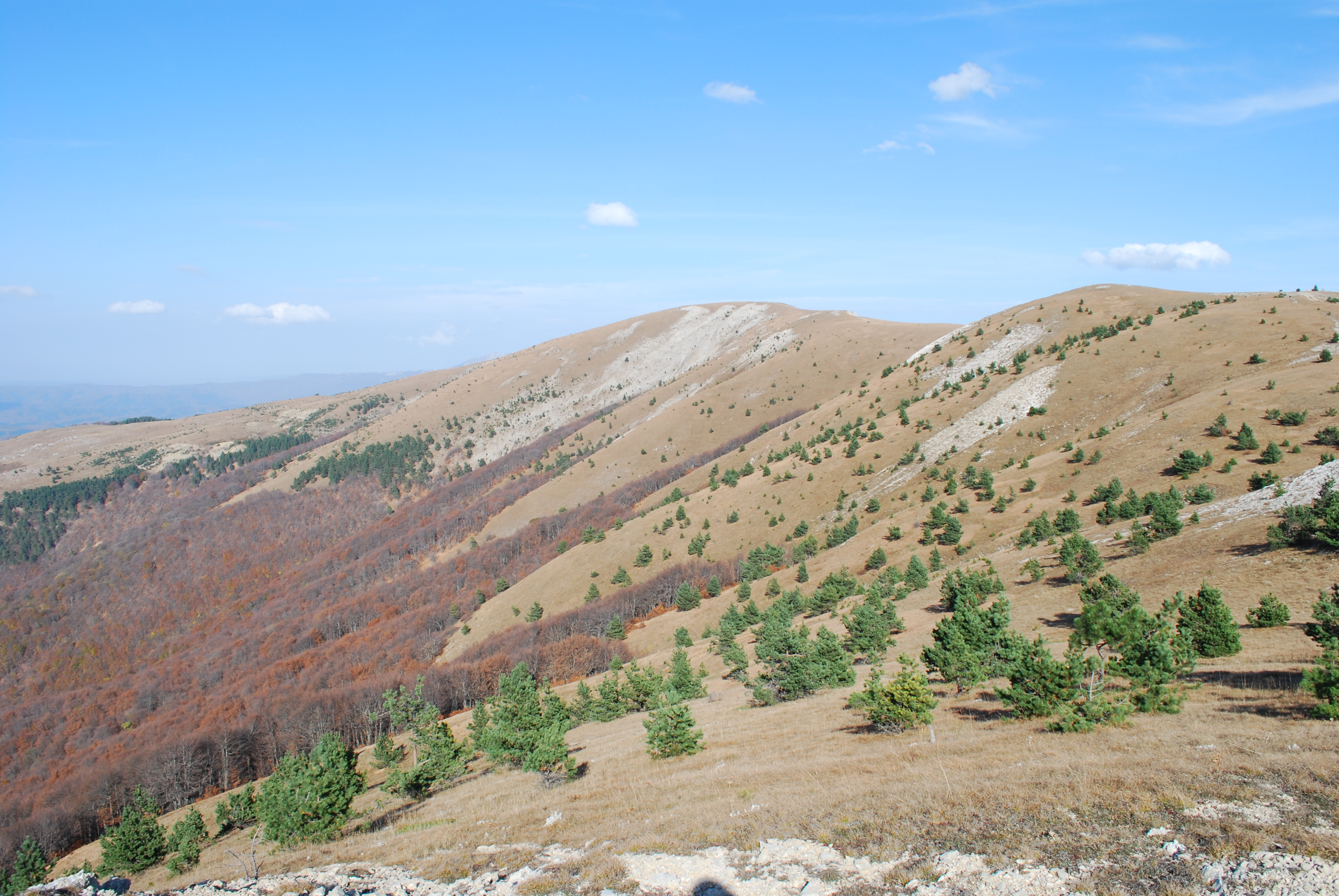 Mount Kemal-Egerek en Crimea.